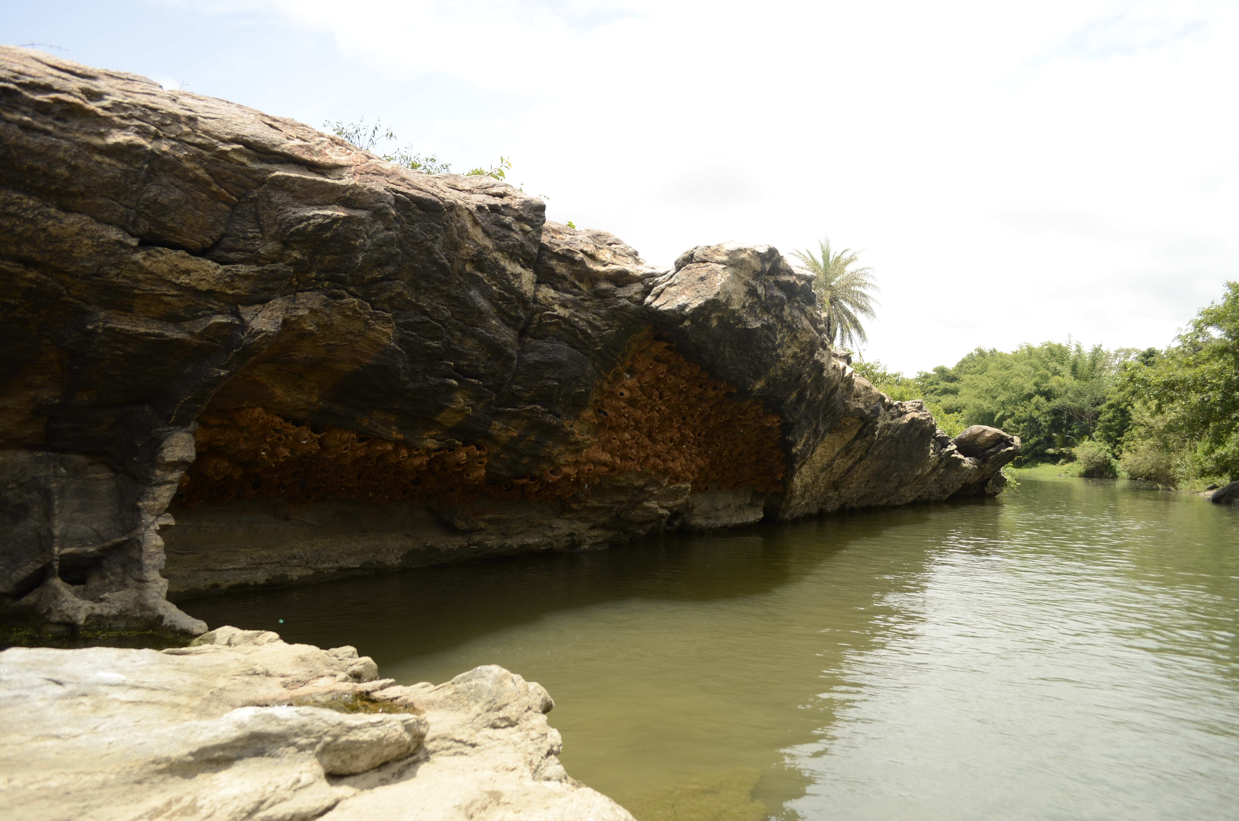 Streak-throated swallow (Petrochelidon fluvicola) ( சின்ன தகைவிலான் ) nest colony from Ranganathittu Bird Sanctuary